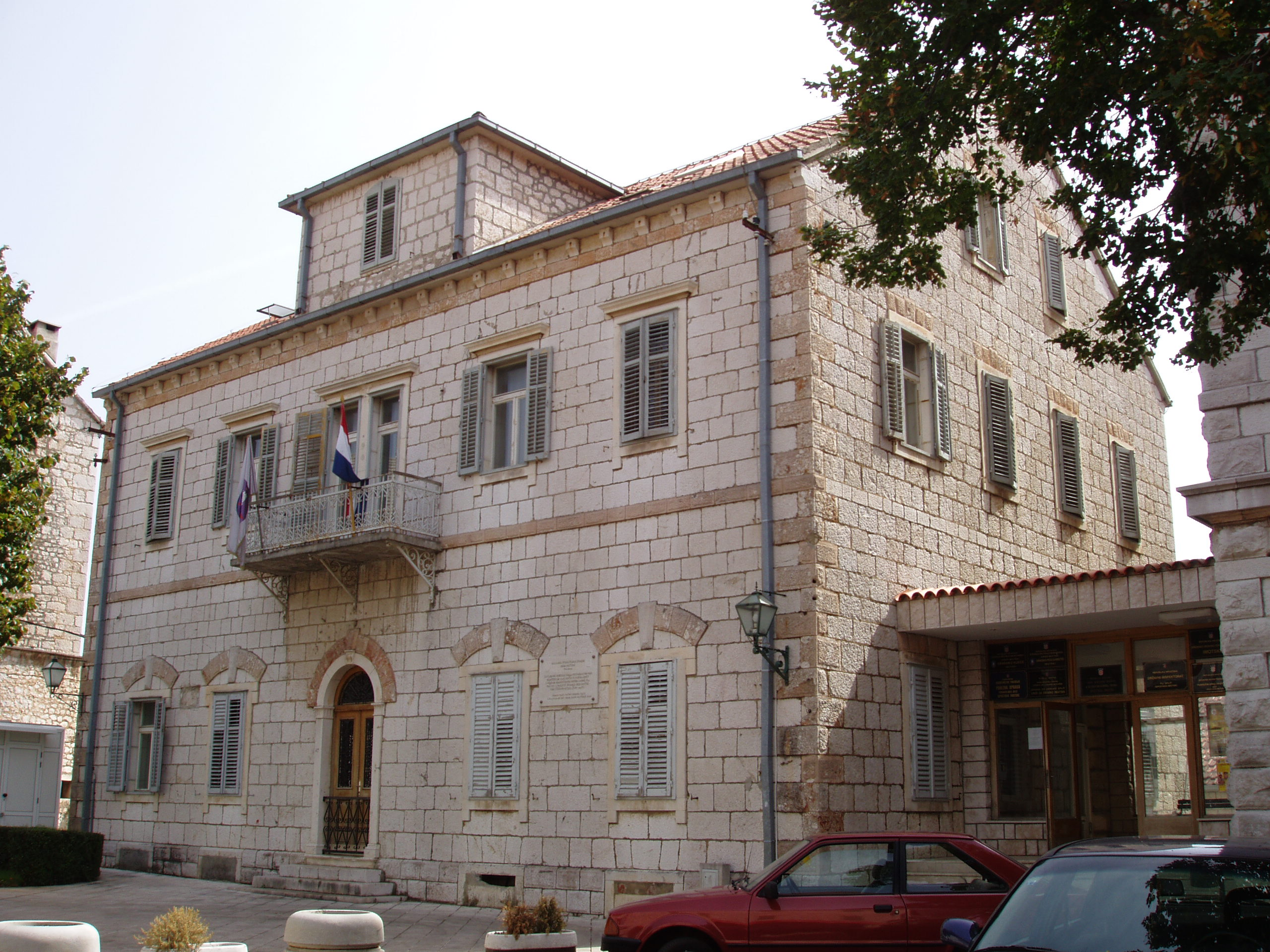 County hall, Imotski, Croatia